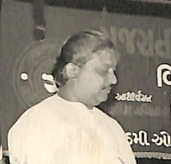 Inauguration of Gujarati Vishwakosh Vol. 6; Bholabhai Patel, Narhari Amin, Swami Sacchidananda, Manubhai Pancholi 'Darshak' and Shrenikbhai Kasturbhai ગુજરાતી: ગુજરાતી વિશ્વકોશના છઠ્ઠા ગ્રંથના વિમોચન પ્રસંગે ભોળાભાઈ પટેલ, નરહરિ અમીન, સ્વામી શ્રી સચ્ચિદાનંદ, મનુભાઈ પંચોળી ‘દર્શક’, શ્રેણિકભાઈ કસ્તૂરભાઈ તા. 8-10-1994